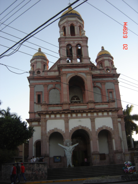 El Santuario church in Downtown Culiacán.